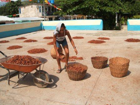 Mother collecting the cacao from the drying square.